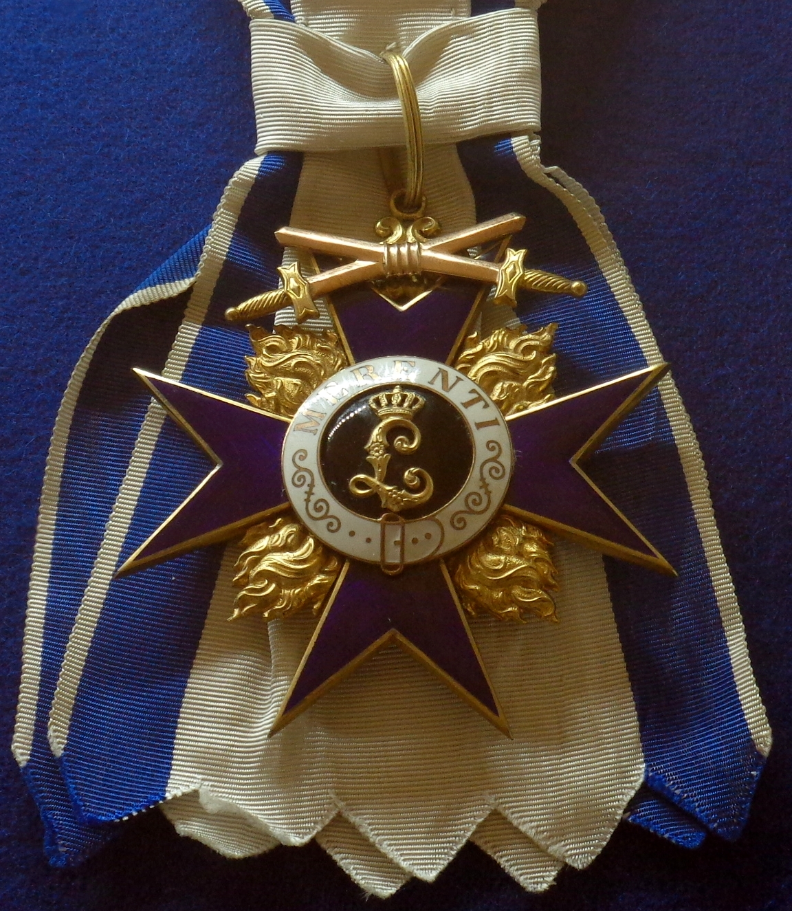 Military Merit Order, badge of Grand Cross with swords. Kingdom of Bavaria. The exhibition of the Tallinn Museum of Orders of Knighthood, Estonia.